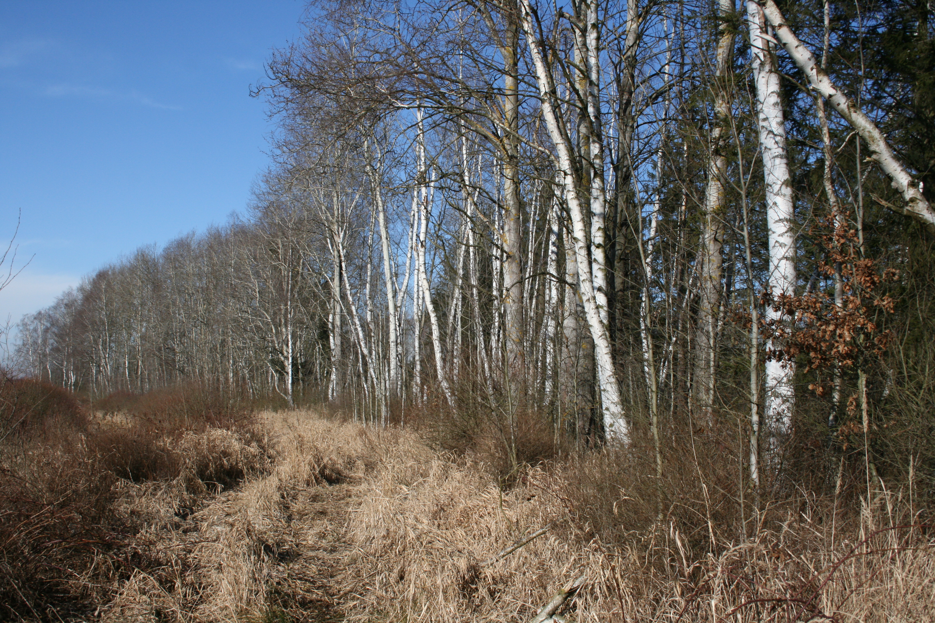 Natural reservation near to Borkovice Village, Tábor District, Czech Republic.